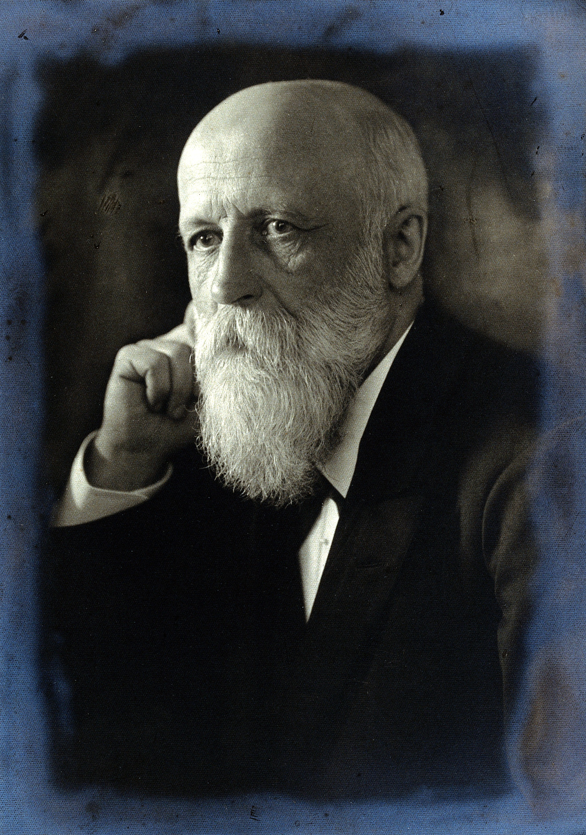 Georg Sticker. Photograph by Leo Gundermann, 1923. Iconographic Collections Keywords: portrait photographs